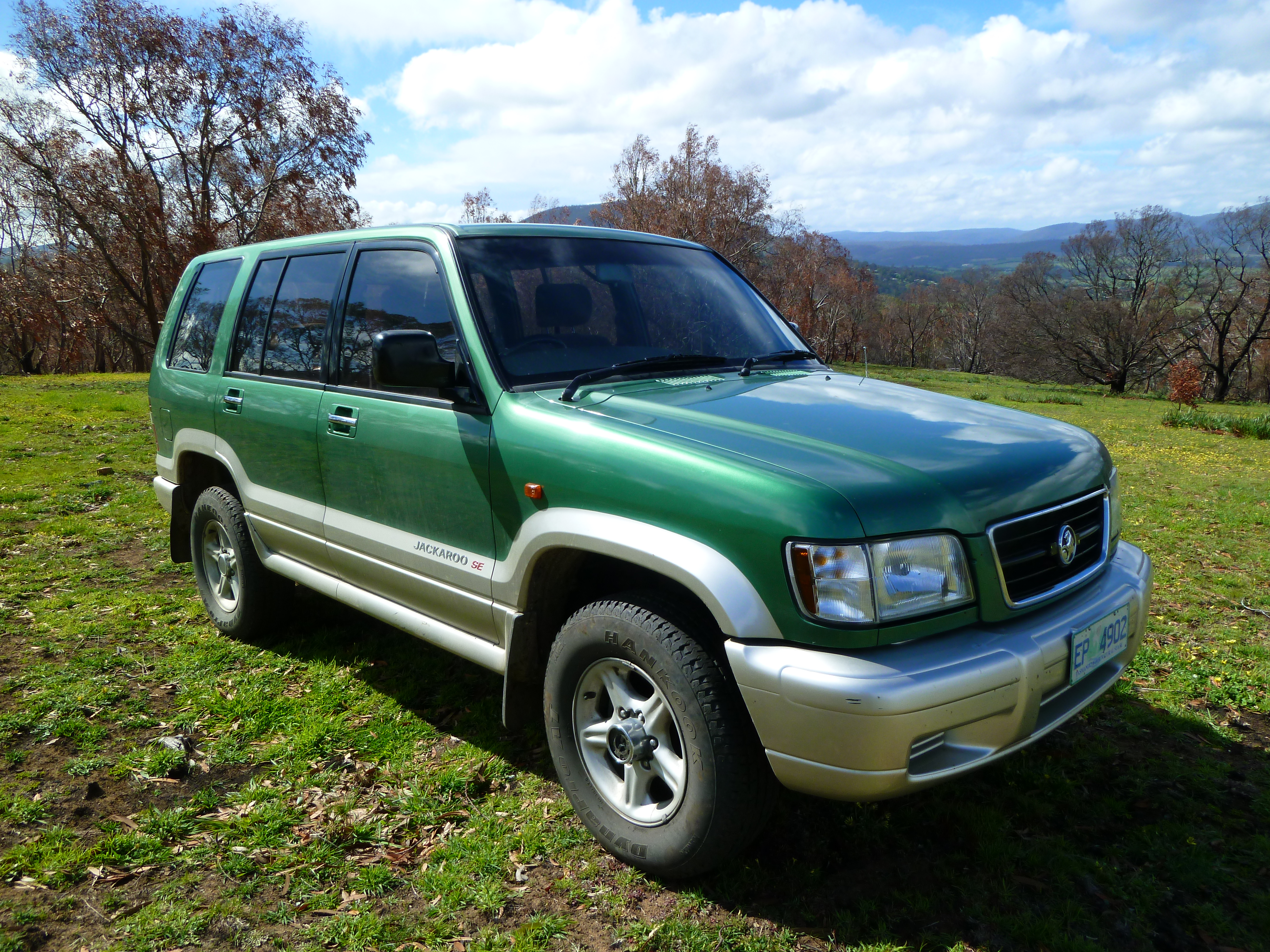 2000 Holden Jackaroo (UBS) SE 5-door wagon, off-road in Tasmania, Australia.